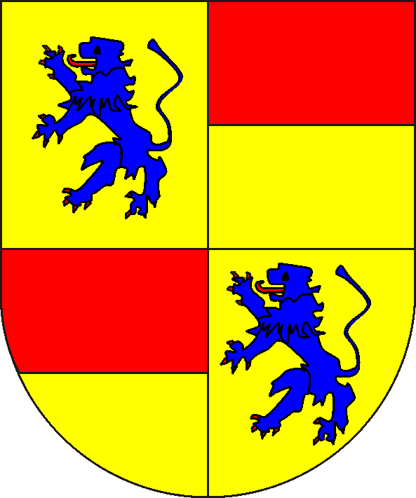 coats of arms of Solms (1407); 1,4: county of Solms; 2,3: lordship of Münzenberg